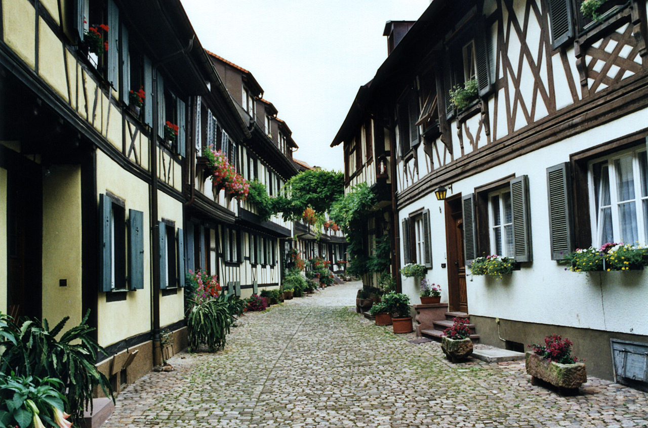 Gengenbach, 2000 Camera data 5-5.6 II